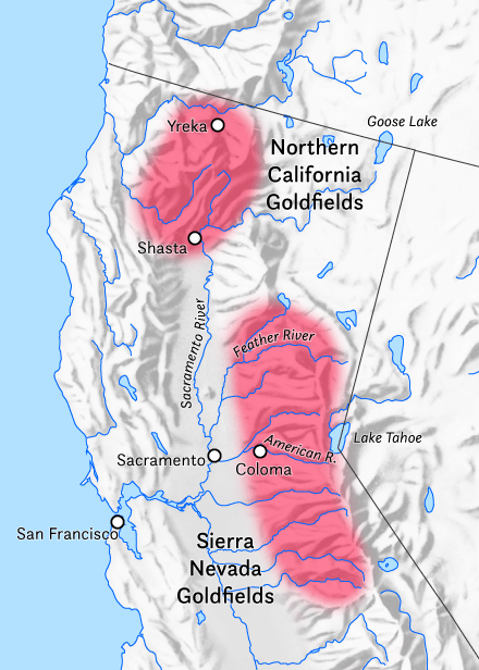 This is an update to the California Gold Rush map currently on the page